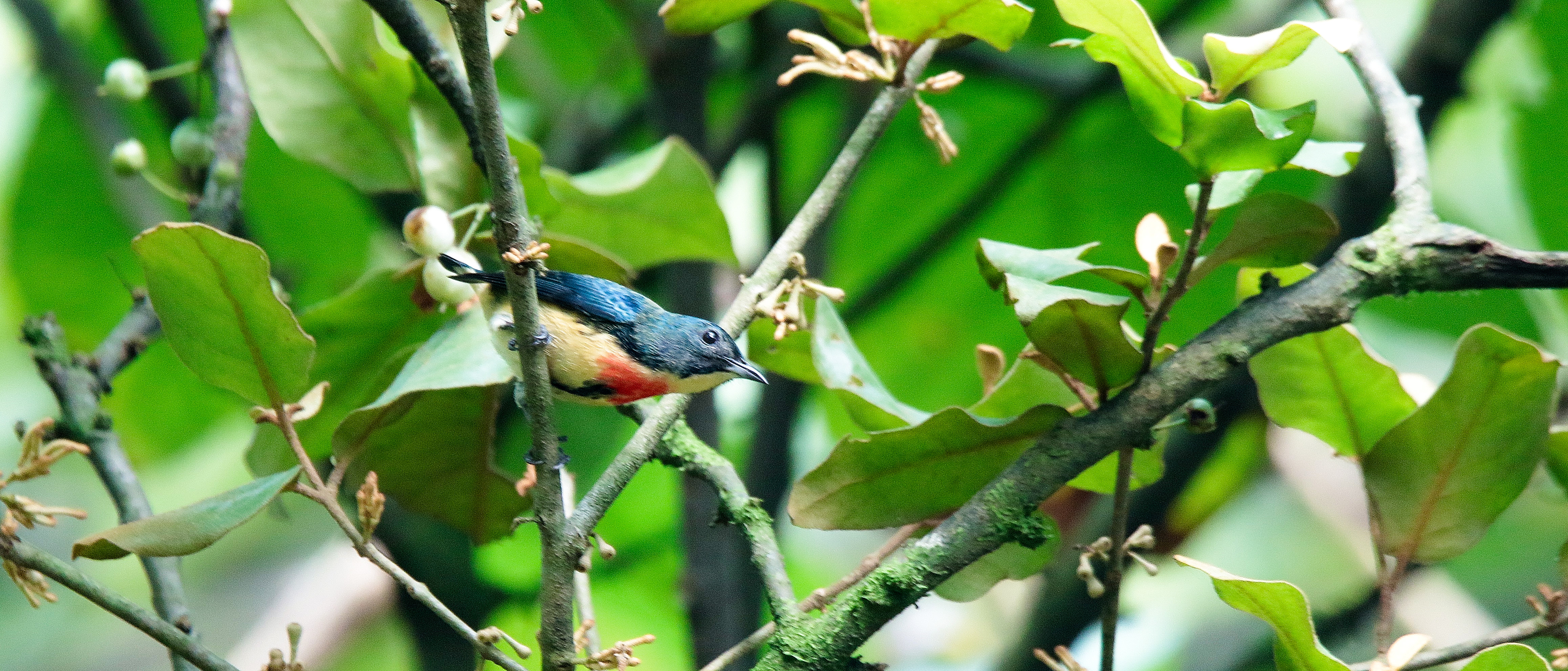 Fire-breasted Flowerpecker